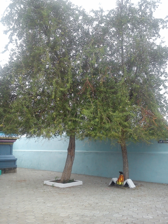 vilva